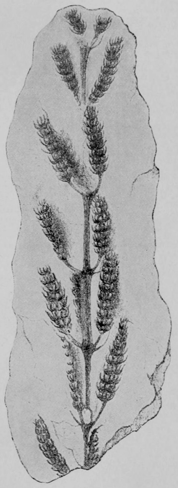 Photograph of a fossil of Palaeostachya pedunculata: fertile shoot, bearing numerous cones and a few leaves.